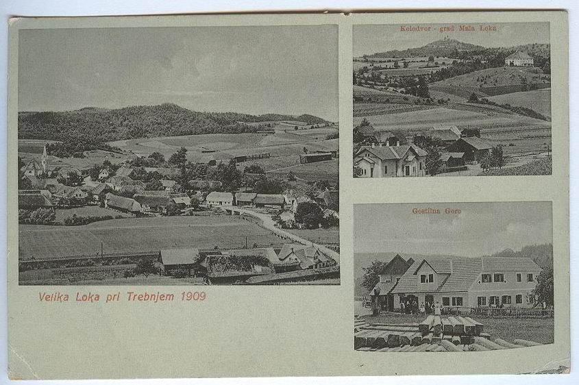 Postcard of Velika Loka, Trebnje, Slovenia.